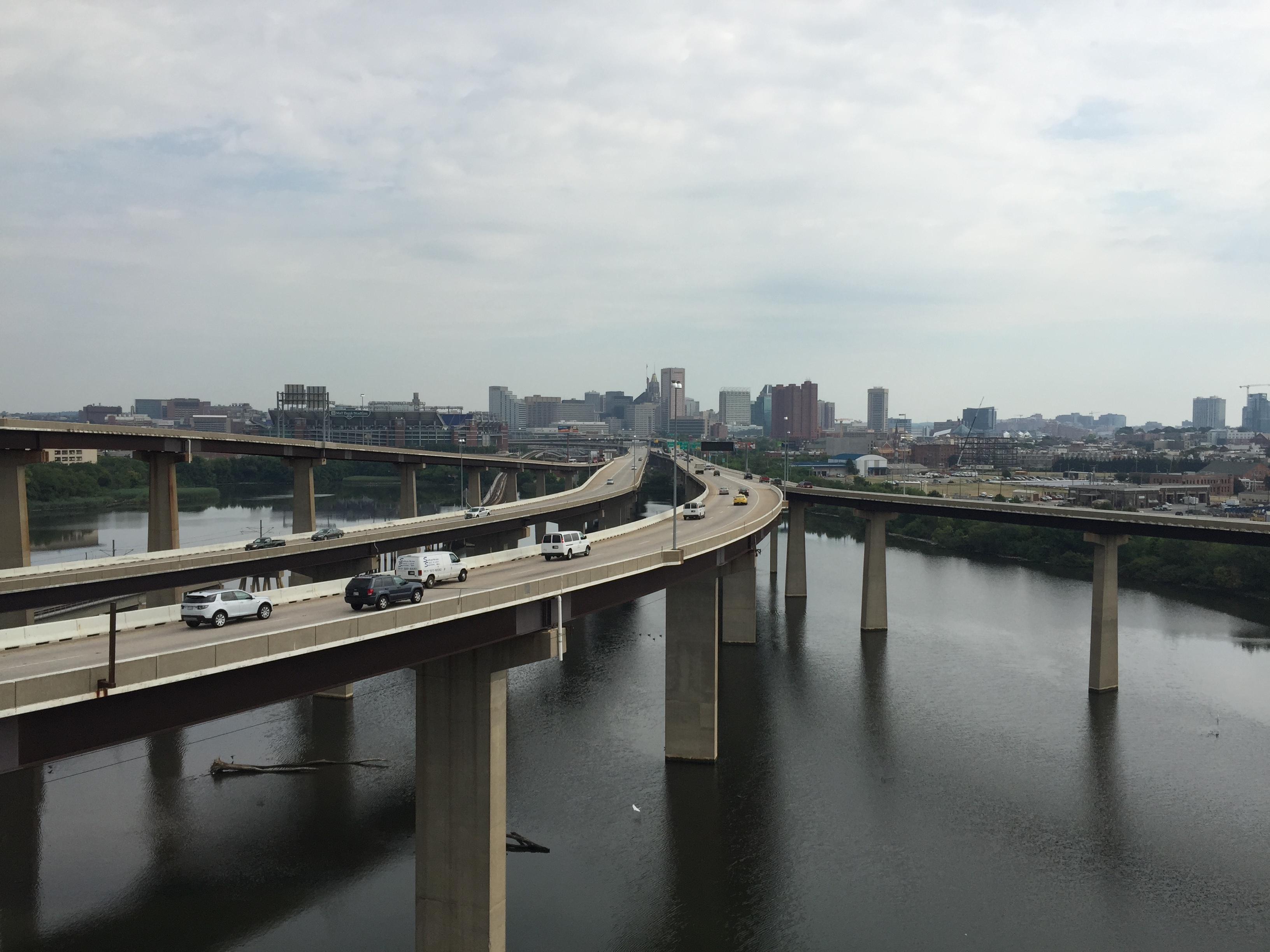 View north along Interstate 395 (Cal Ripken Way) from the ramp from Interstate 395 south to Interstate 95 north over the Middle Branch Patapsco River in Baltimore City, Maryland